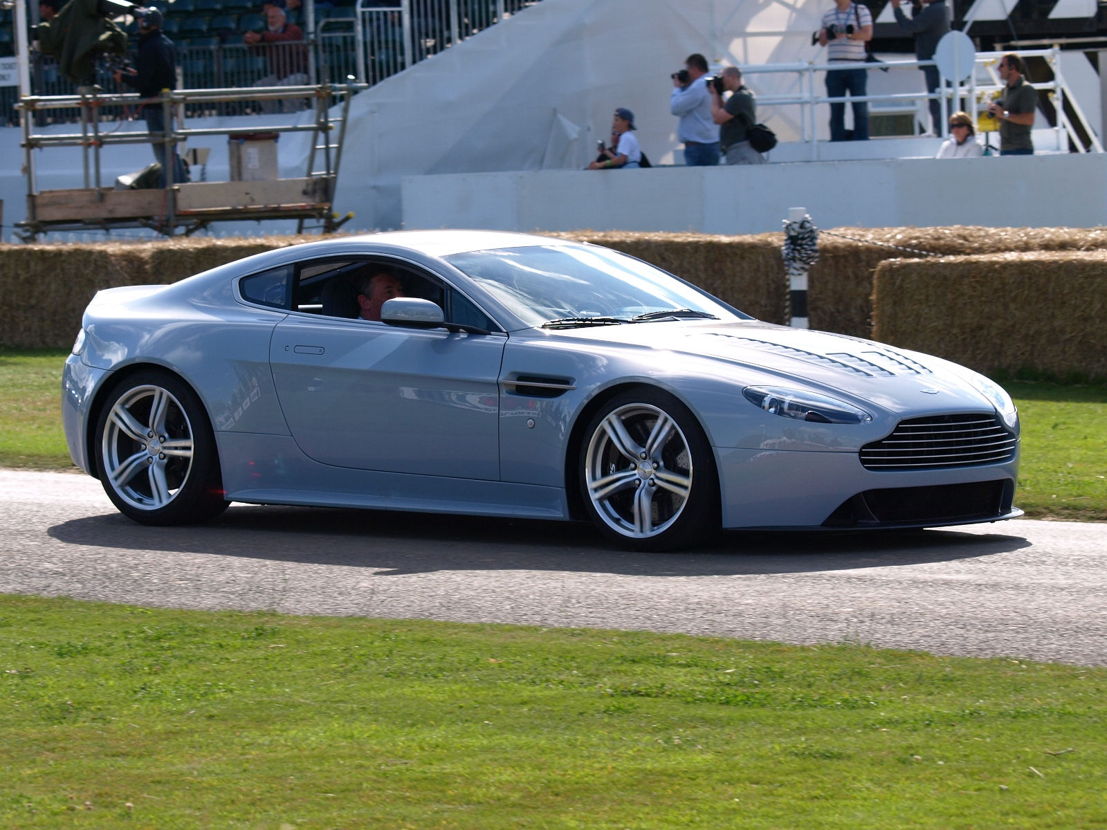 2007 Aston Martin V12 Vantage RS Concept at the 2008 Goodwood Festival of SpeedAston Martin